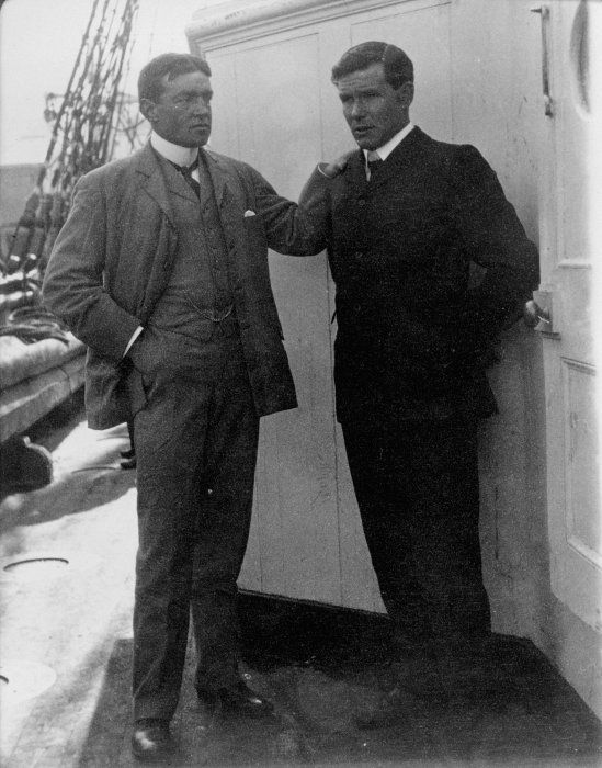 Sir Ernest Shackleton (left) with Dr George A Davidson on board the Discovery Expedition's relief ship Morning in Lyttelton Harbour, New Zealand)